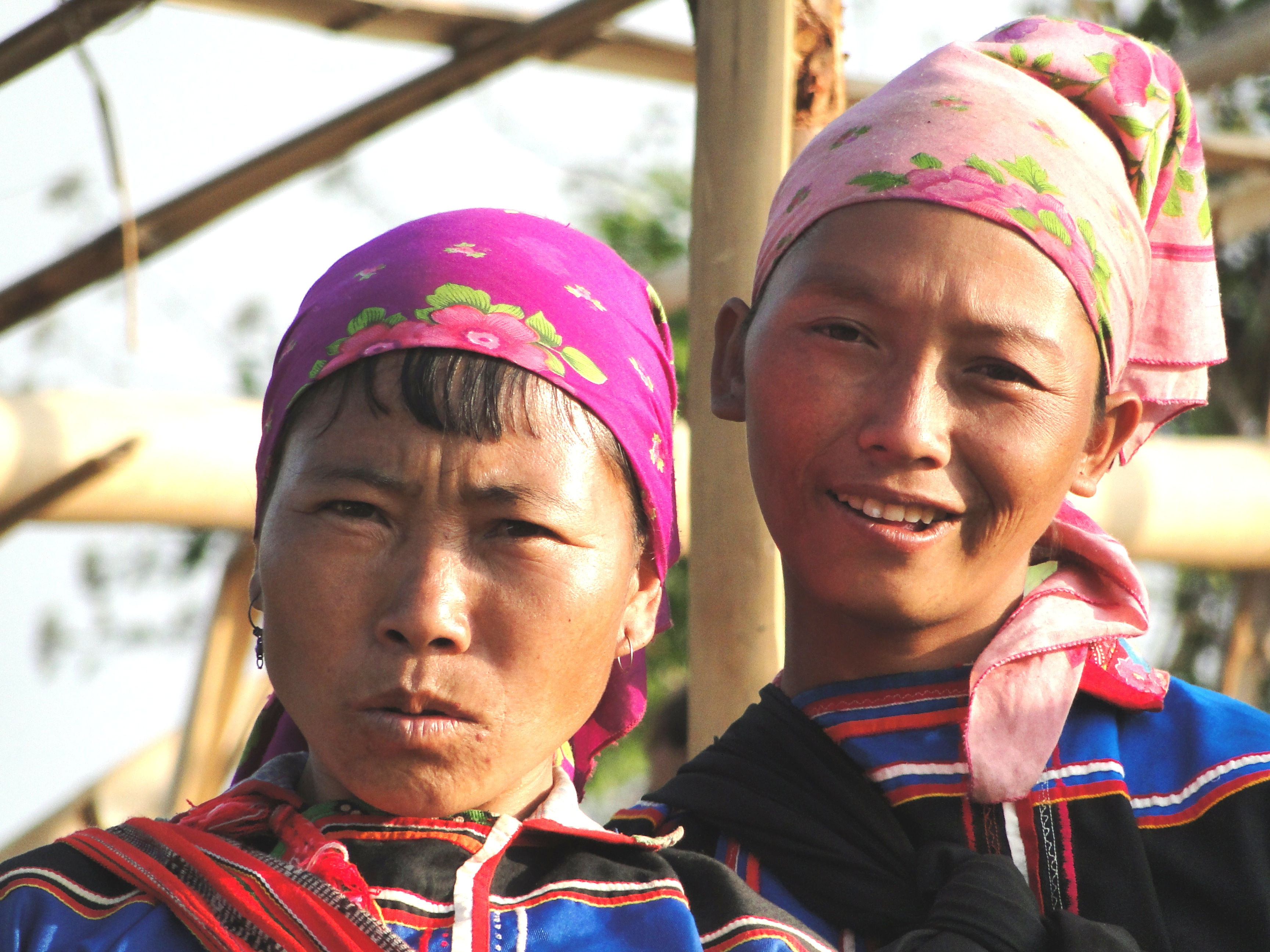 Two ethnic Wa woman in traditional clothing, some of those who benefited from an ECHO funded project to bring clean water and better sanitation to their remote village near the Burma-China border.